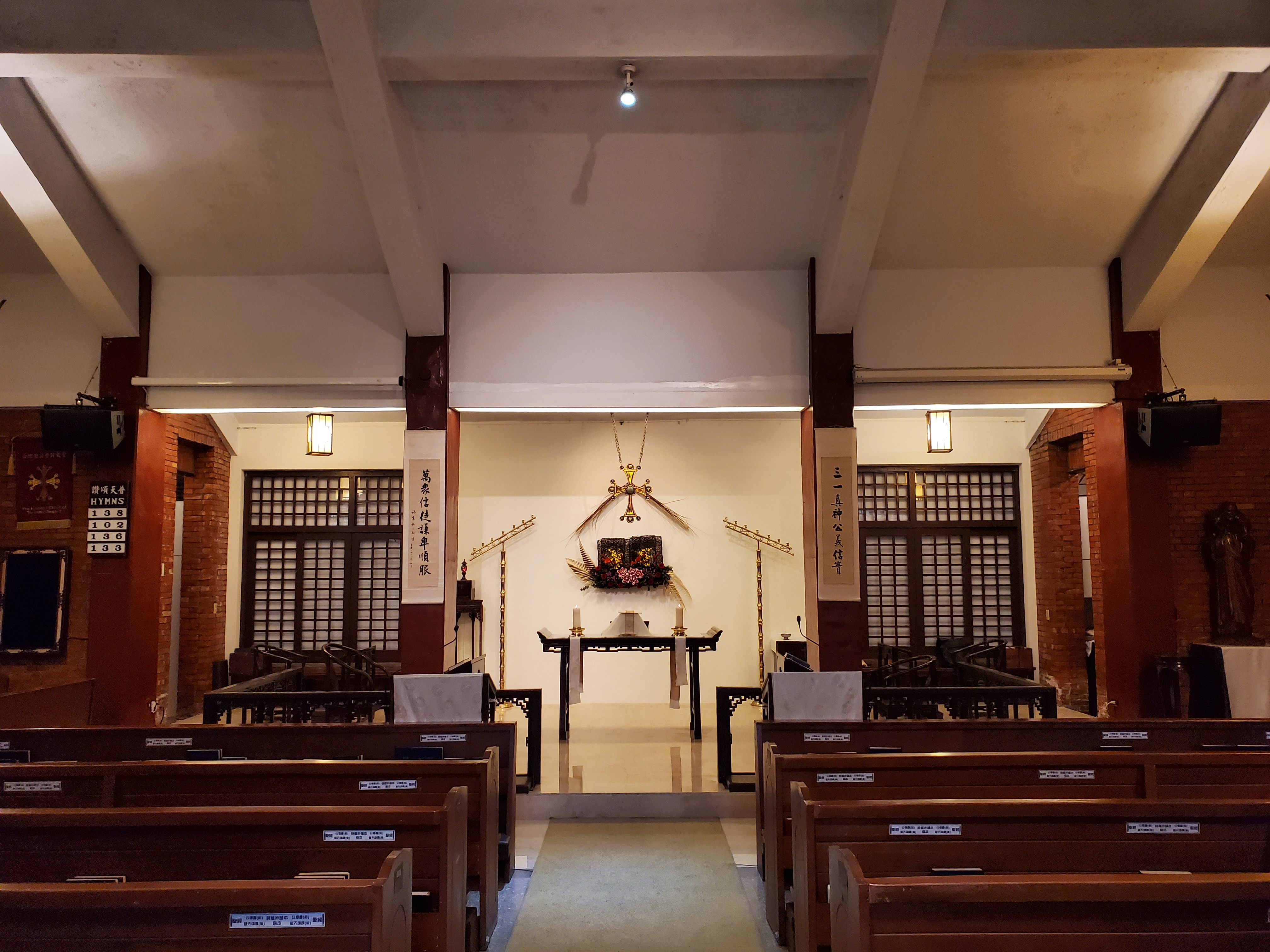 Sanctuary of the Church of Good Shepherd (Taipei)